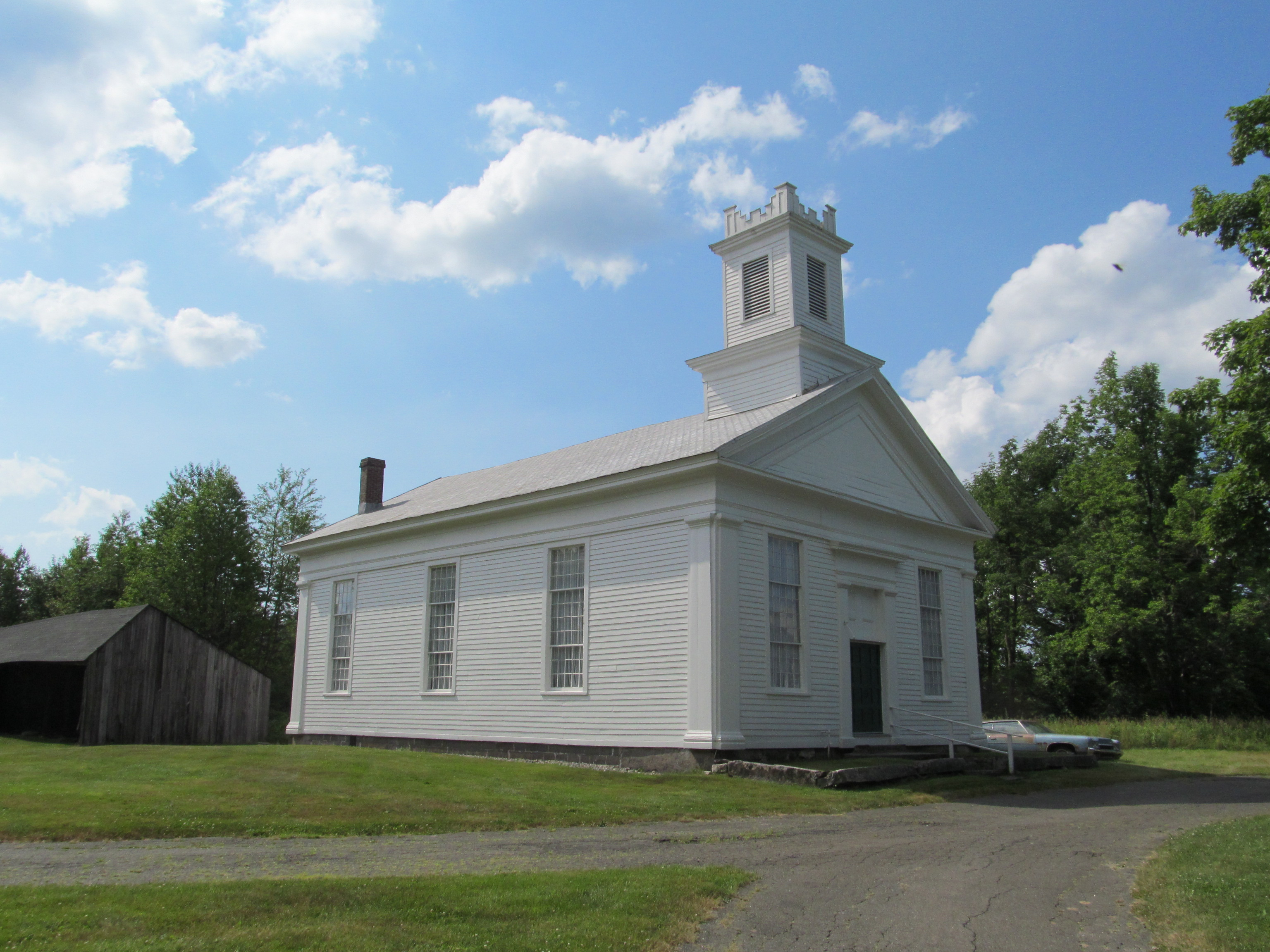 Congregational Church, July 2012, Tolland Massachusetts